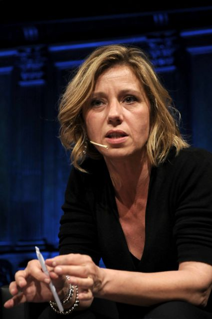 Concita De Gregorio al Festival Internazionale del Giornalismo di Perugia.